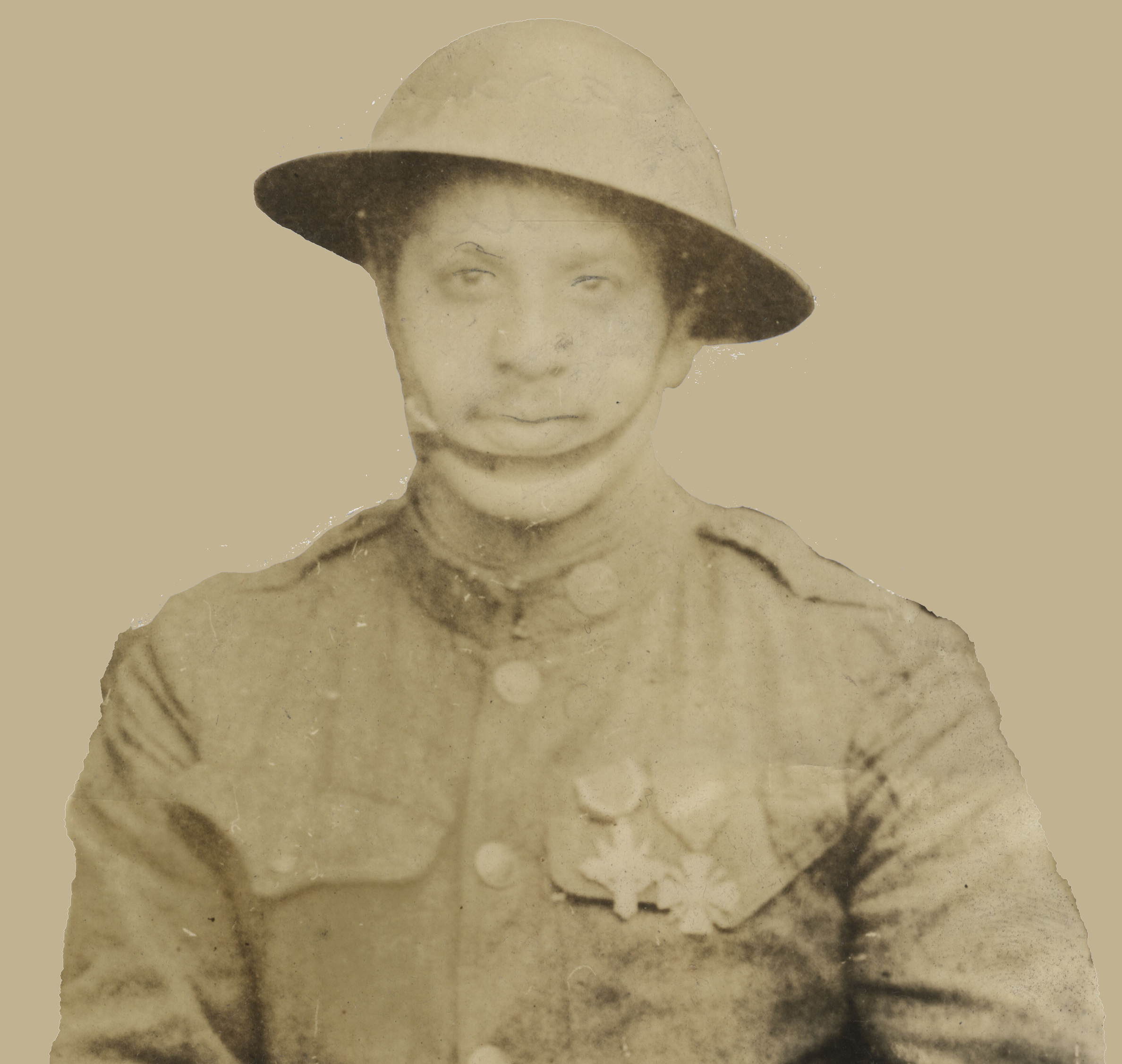 Corporal Clarence Van Allen 372nd Infantry Regiment Crop 1919